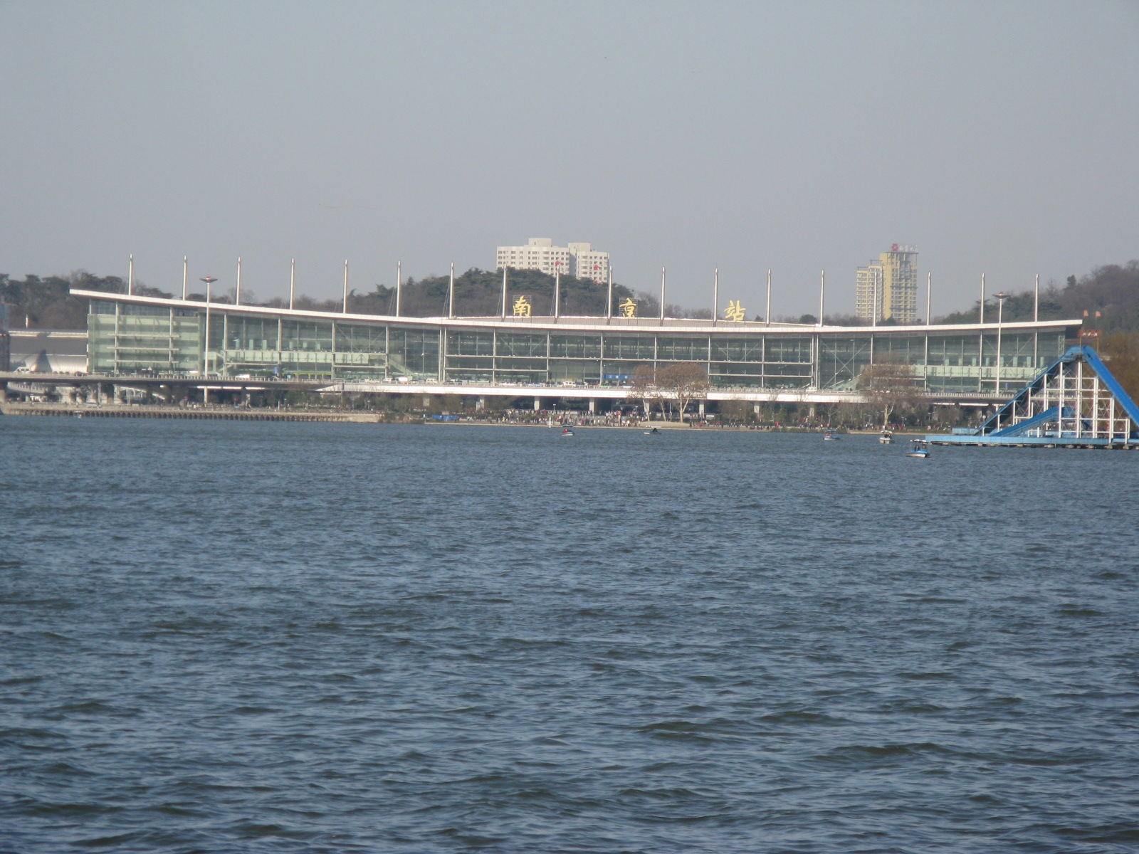 nanjing railway station